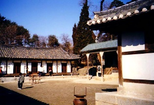 Scholar's house in Gangneung, South Korea .